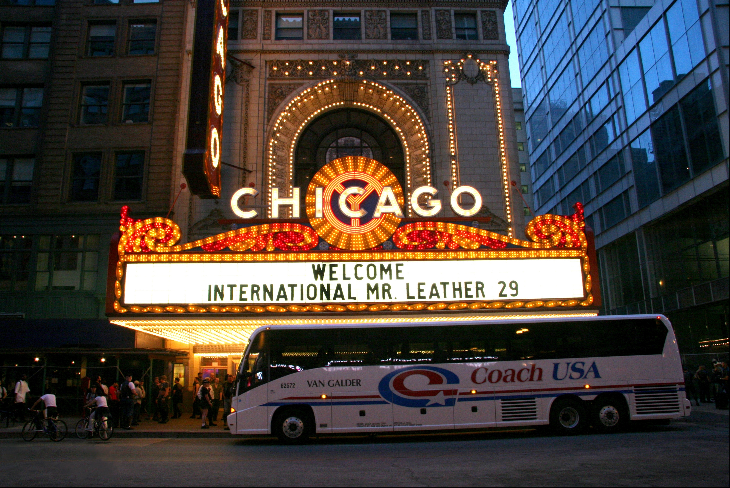 International Mr Leather #29, 2007 at the Chicago Theater